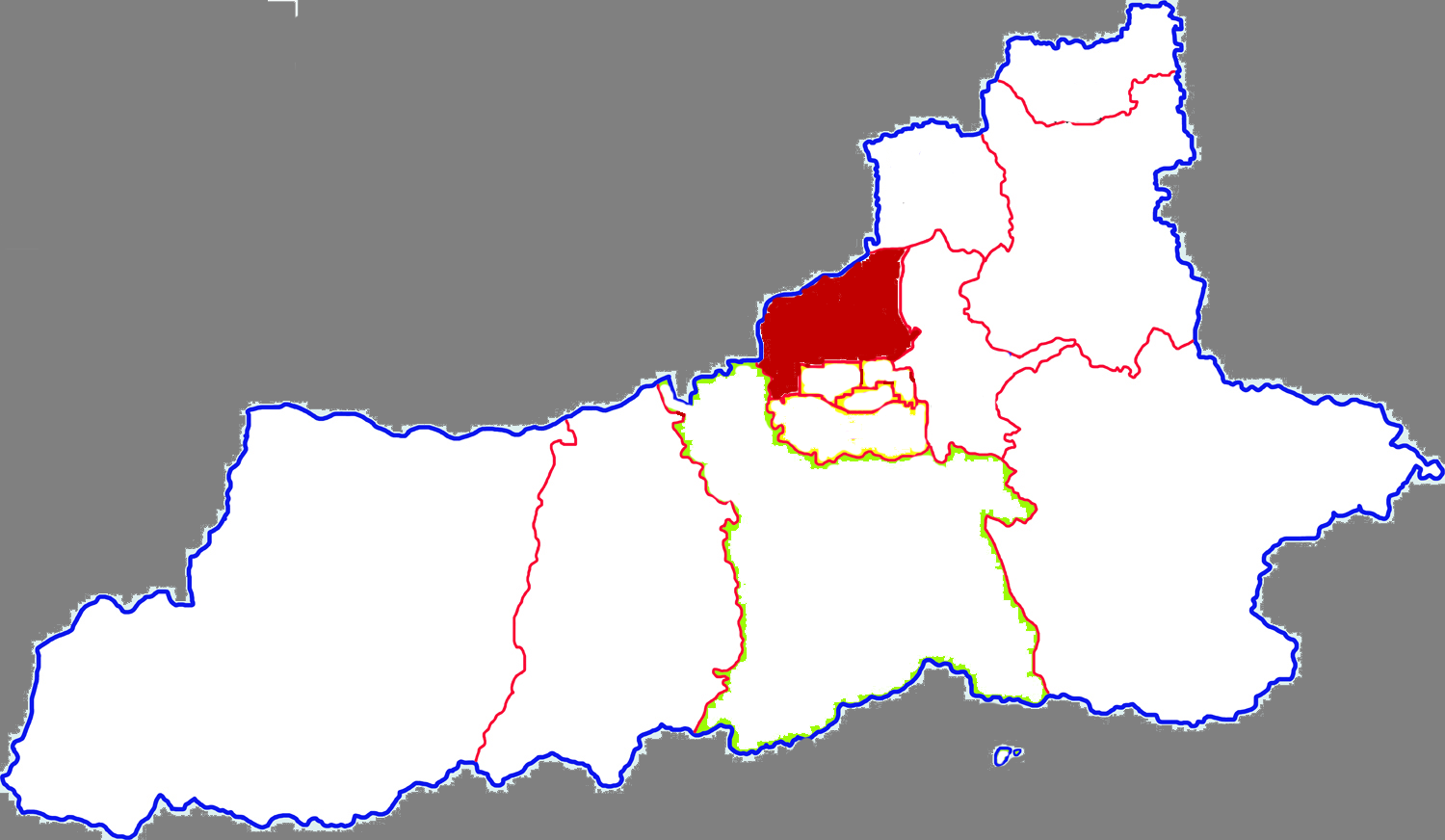 Location of Weiyang district in Xi'an city, China